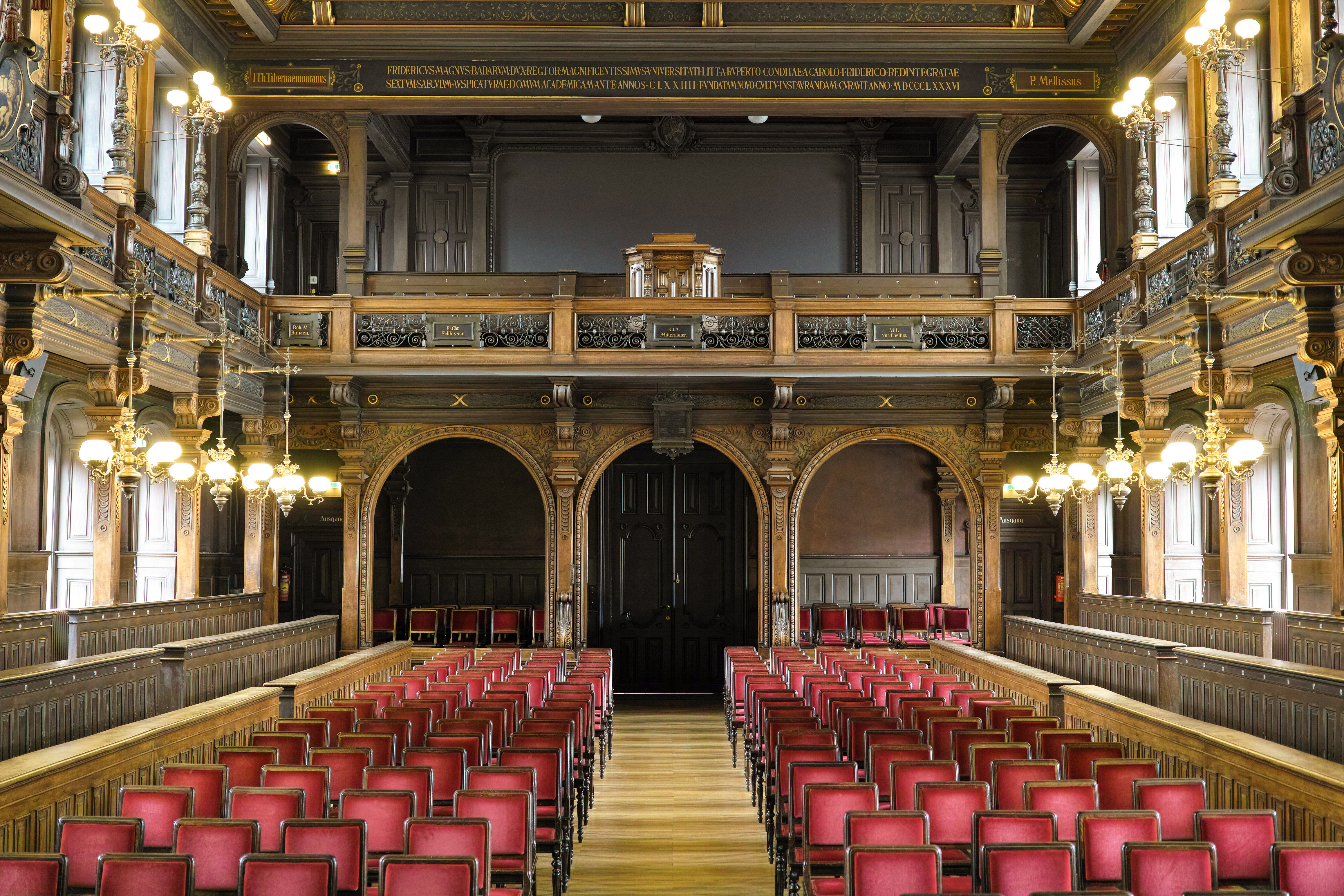 Entrance area of Old Aula of Heidelberg University.